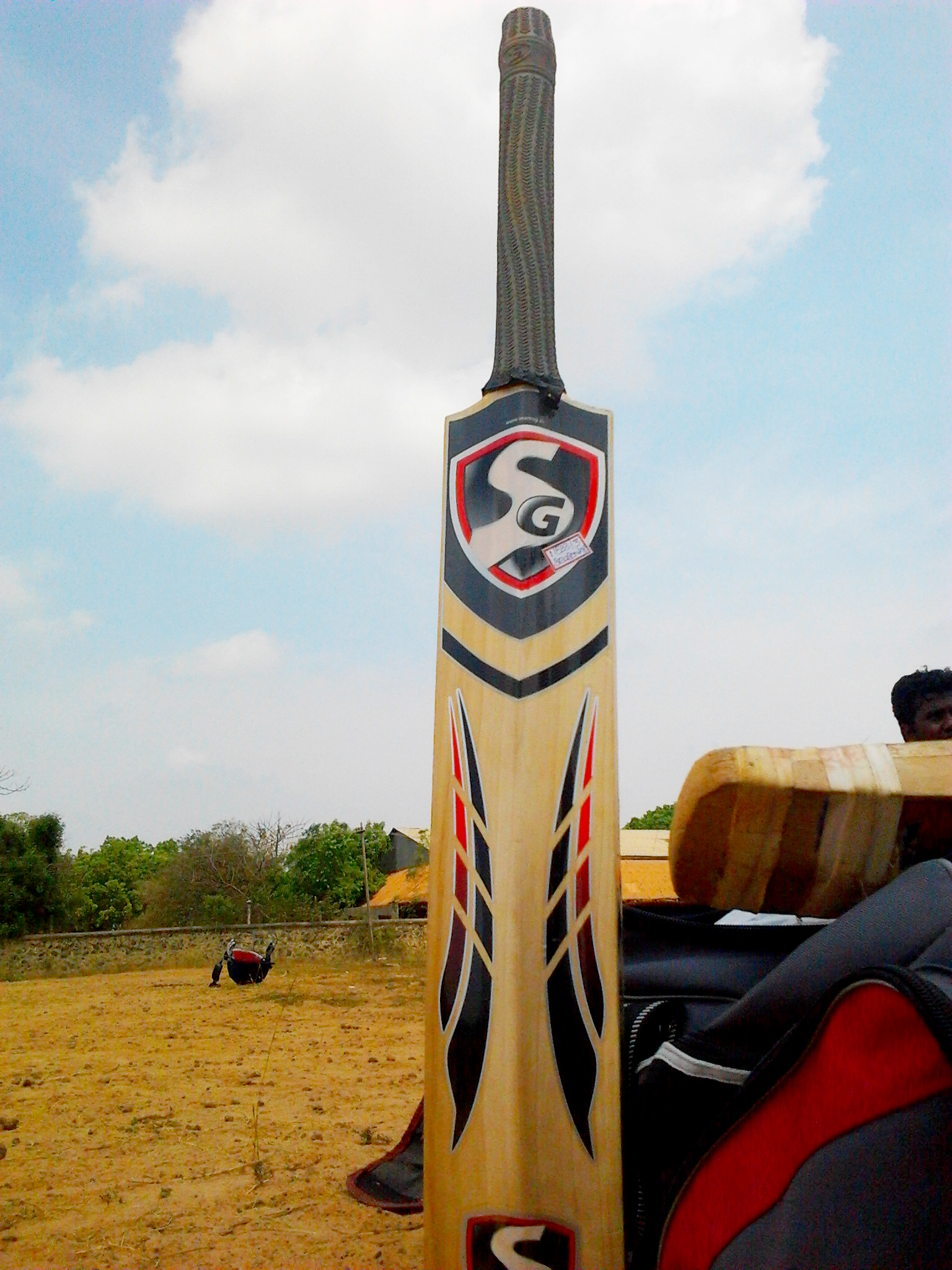 A modern Cricket bat.